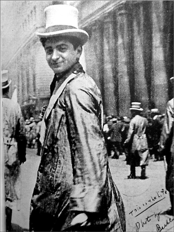 Photo of Irving Berlin in New York City, circa 1911